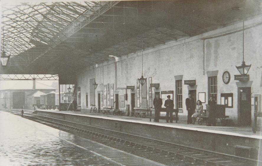 Market Weighton Station was demolished in 1967 as part of the infamous railway cutbacks of Dr Beeching. This image shows it back in its heyday, before any talk of scrapping the direct Hull-York line. (Why not try searching our East Riding of Yorkshire Map for more historic images? ) (Copyright) We're happy for you to share this digital image within the spirit of Creative Commons. Please cite ' ' when reusing. Certain restrictions on high quality reproductions and commercial use of the original physical version apply. If unsure please